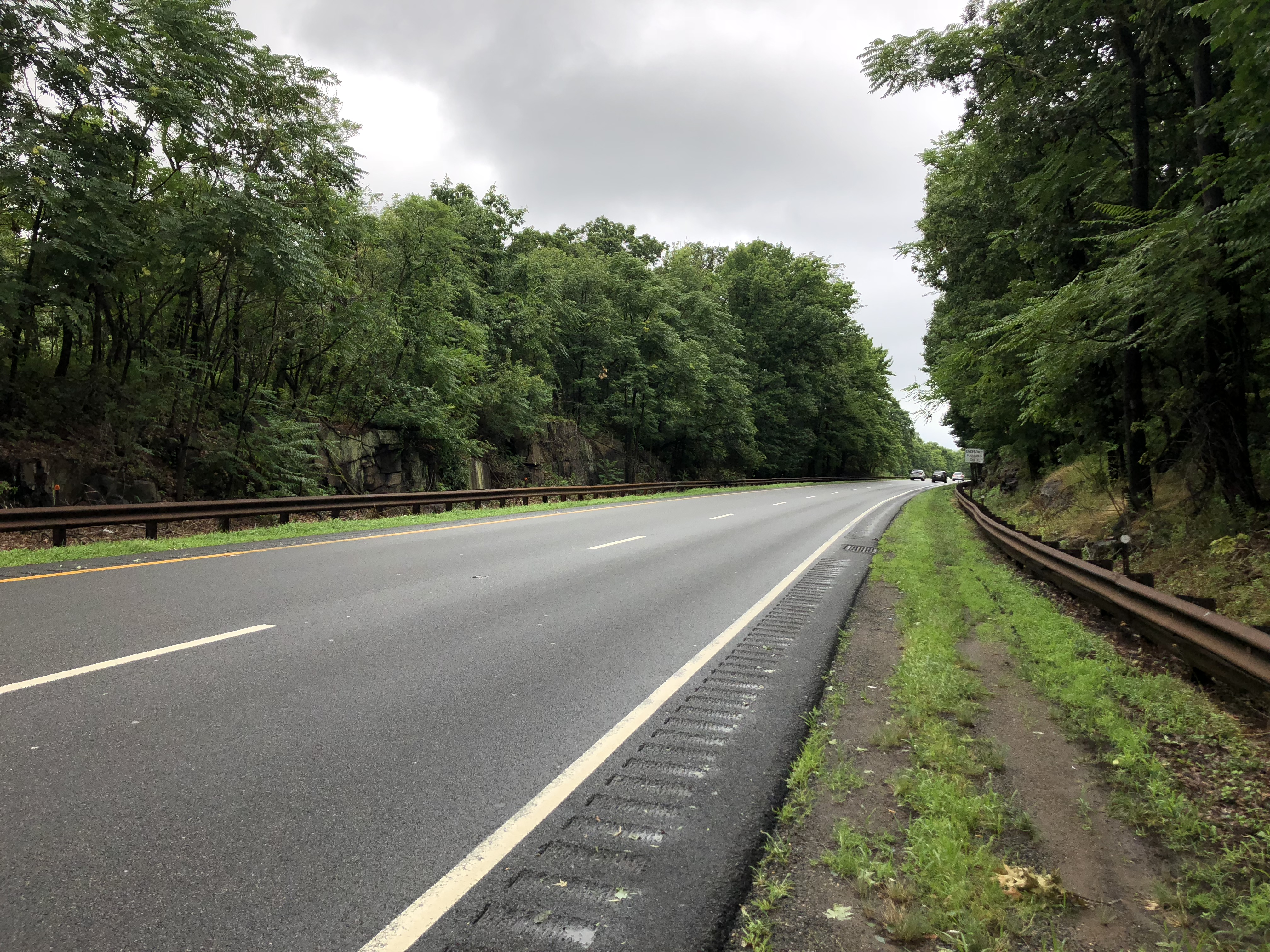 View north along New Jersey State Route 445 (Palisades Interstate Parkway) between Exit 1 and Exit 2 in Tenafly, Bergen County, New Jersey, USA